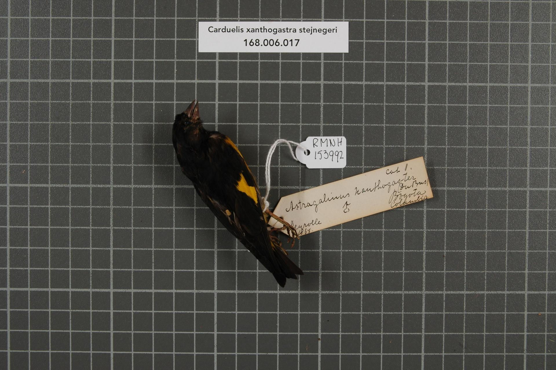 Carduelis xanthogastra stejnegeri (Sharpe, 1888)